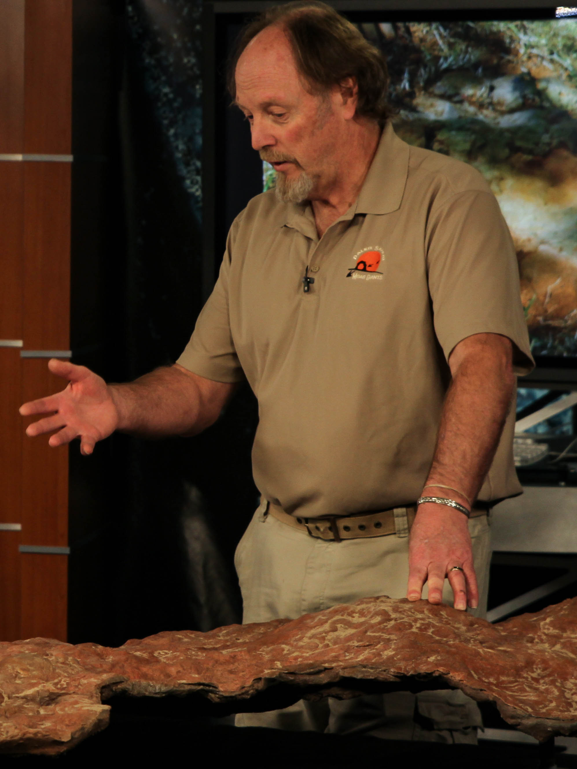 Martin Lockley, paleontologist from the University of Colorado at Denver, discusses a cast of the sandstone slab imprinted with more than 70 dinosaur and mammal tracks that was discovered at Goddard Space Flight Center in 2012. Credit: NASA/Goddard/Rebecca Roth